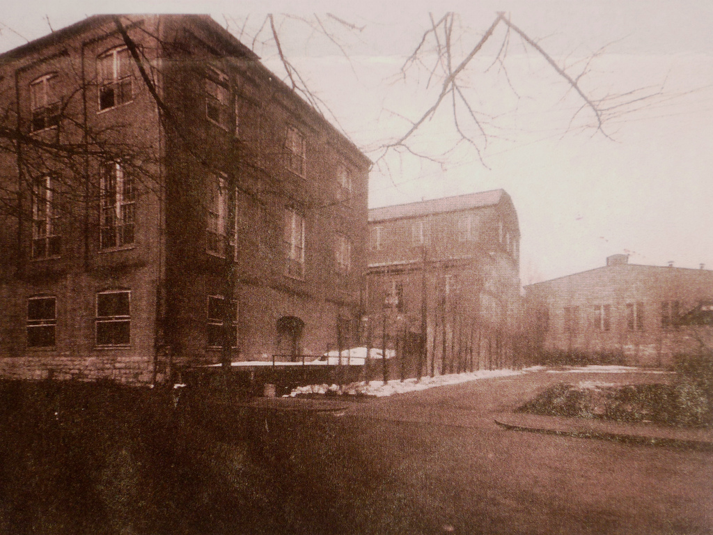 Looking from Broad street. Geiser